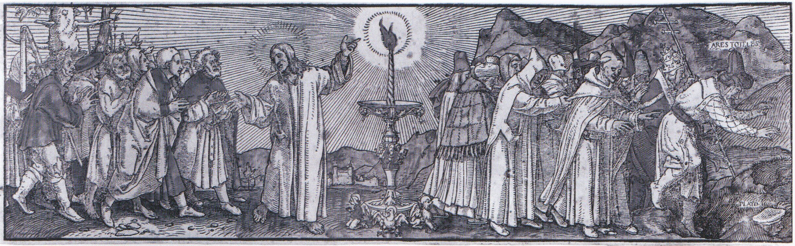 Christ as the True Light (Christus vera lux). Woodcut, 8.4 × 27.7 cm, Kunstmuseum Basel.